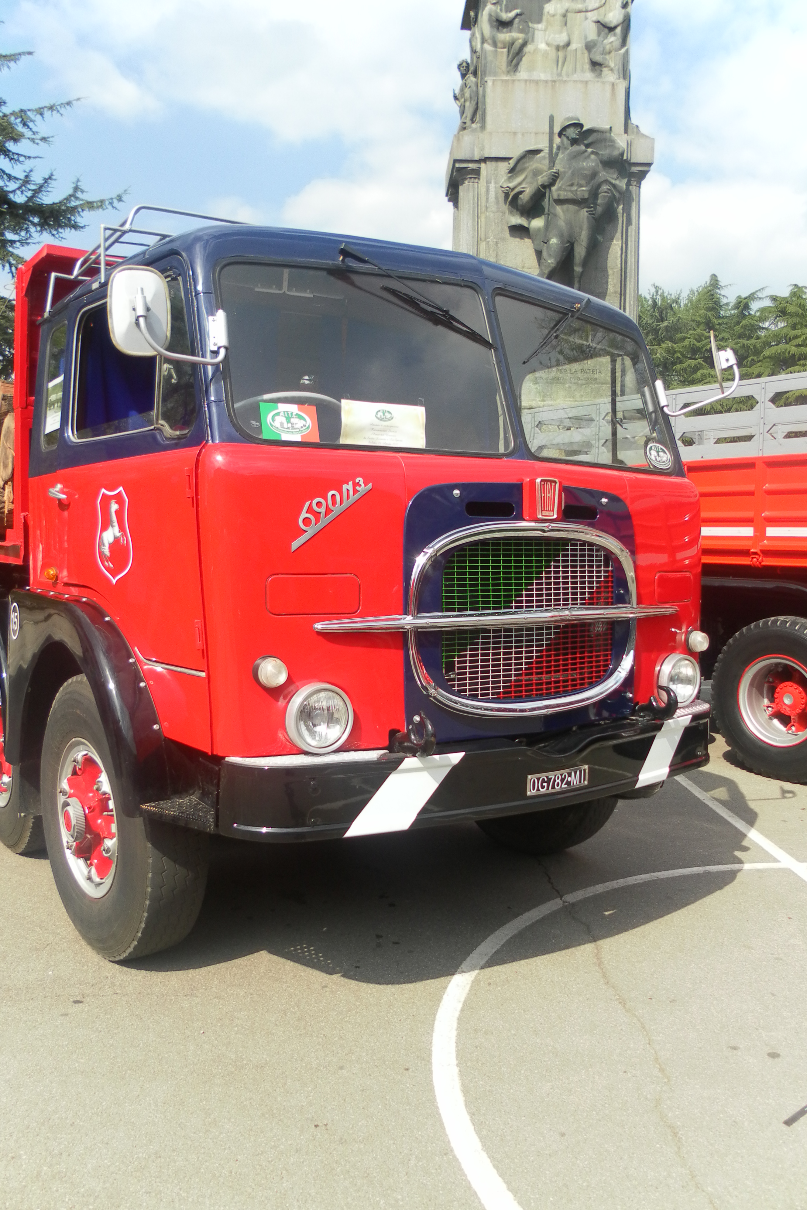 Fiat 690